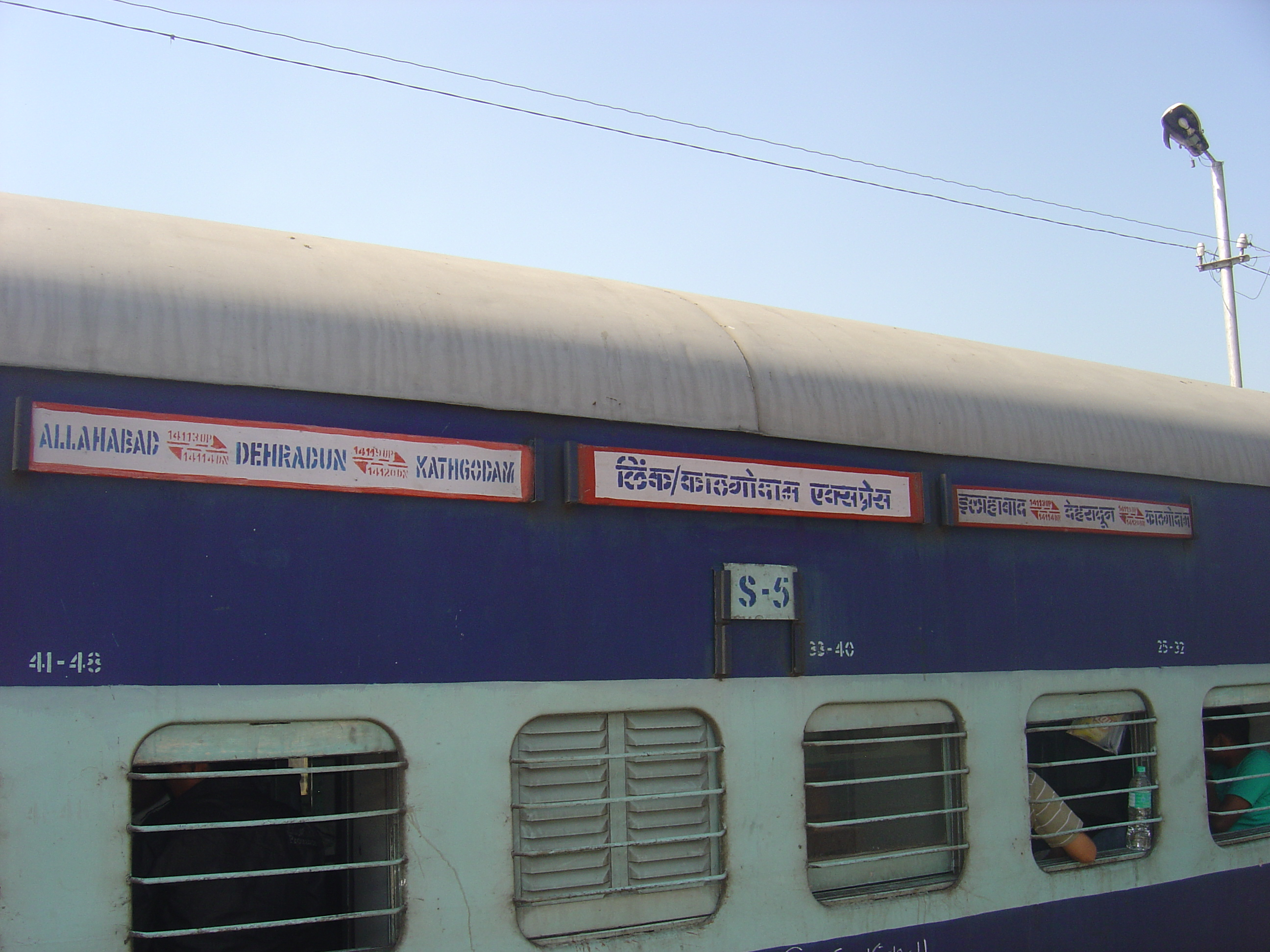 14119 Kathgodam Express - Sleeper class coach